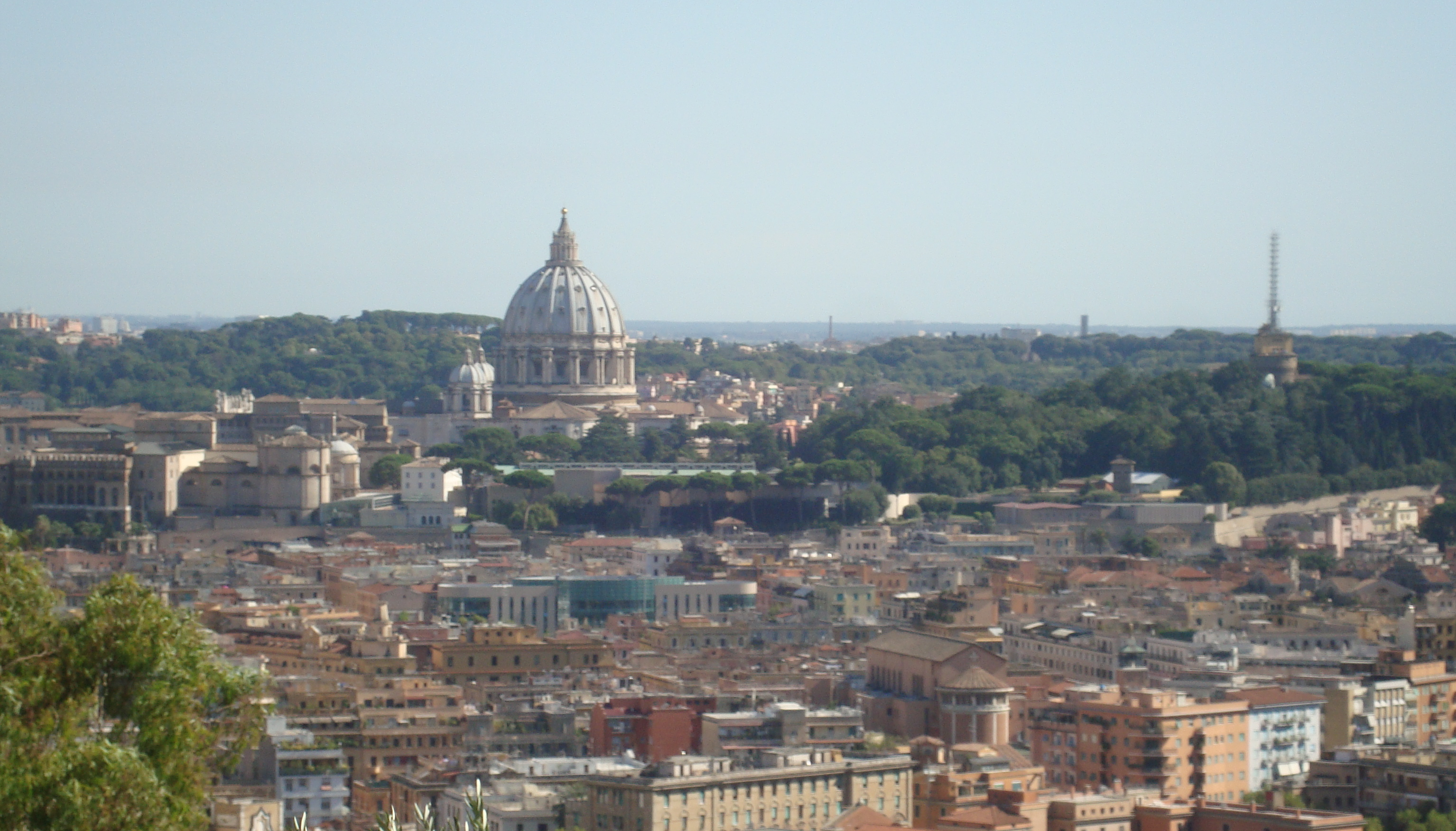 View of the Vatican from Monte Mario, Rome.